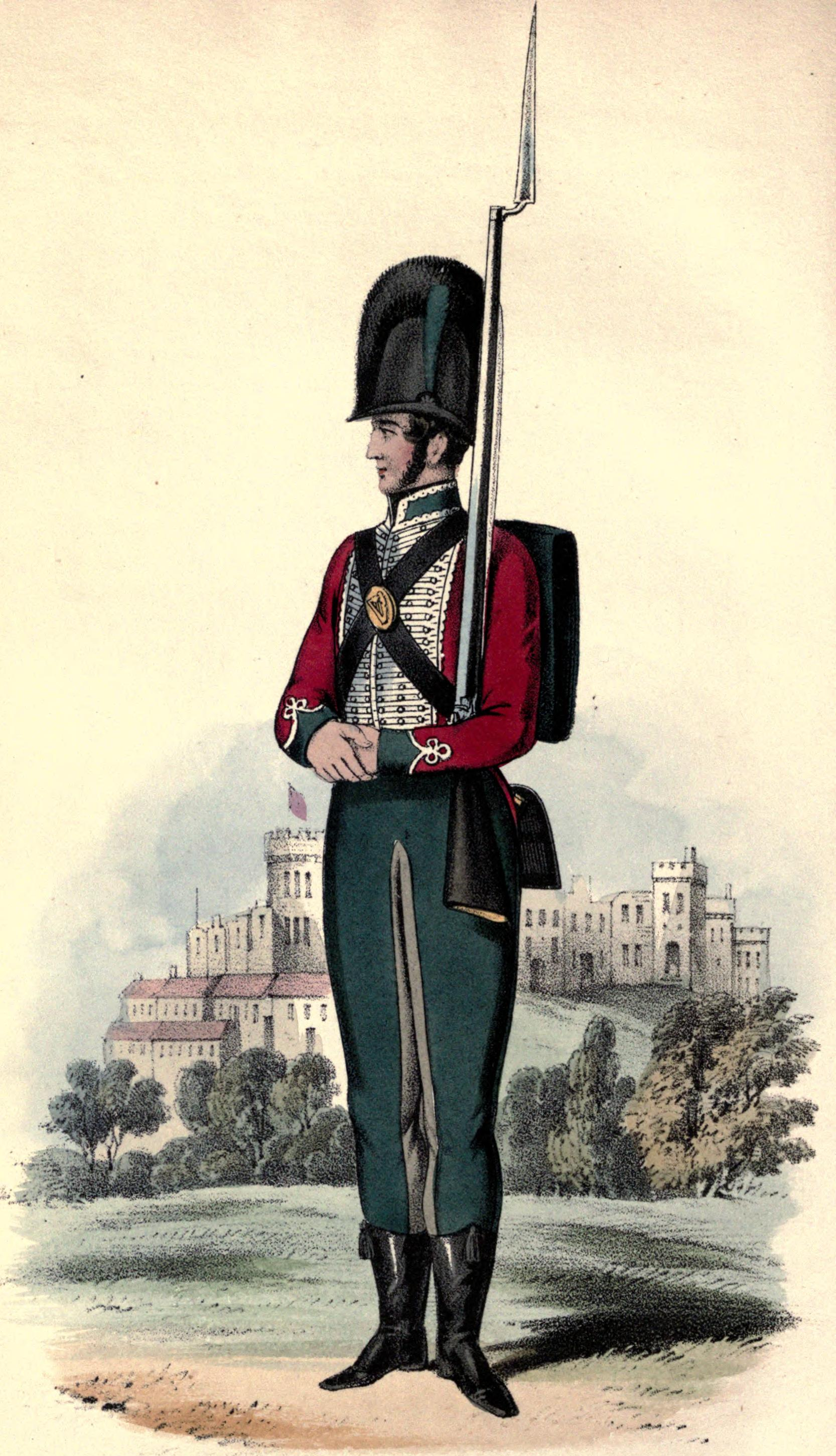 Original uniform of the 87th Regiment in 1793.